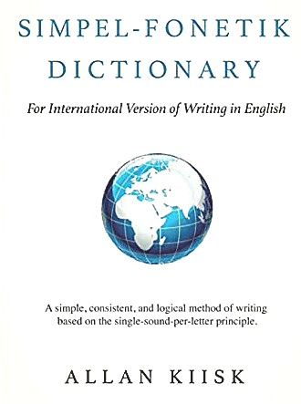 Allan Kiisk: Simpel-Fonetik Dictionary. For International Version of Writing in English, 2018, 2nd edition - book cover